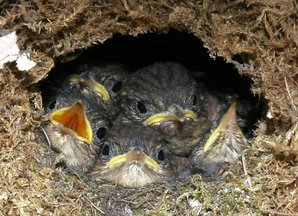 Winter Wren (Troglodytes troglodytes), five hatchlings, picture taken on May 5th, 2007 in Bensheim (Germany).